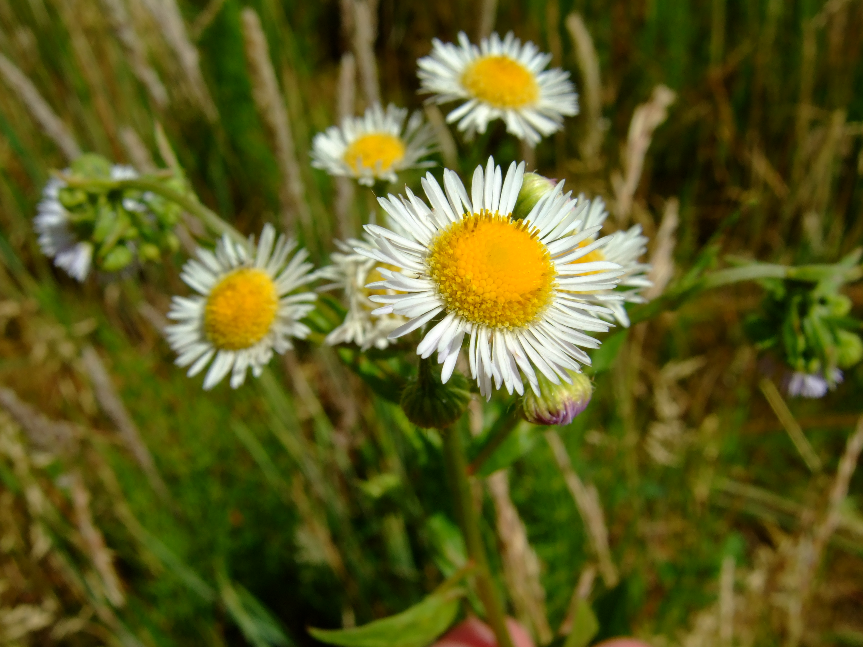 Annual fleabane in Kirchwerder, Hamburg.